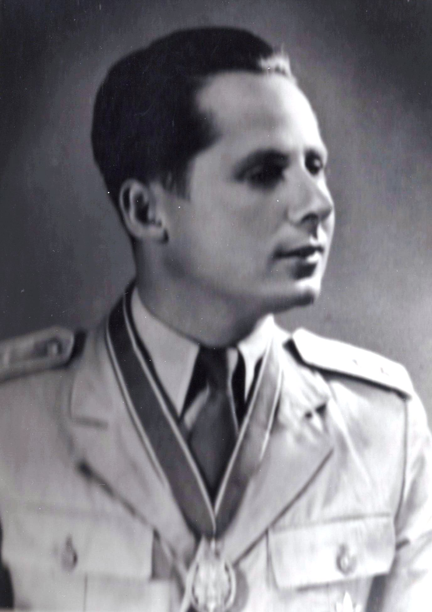 Angel Mojsovski (1923-2001) People's Hero of Yugoslavia from the Republic of Macedonia This media file is produced by Wikipedian in Residence in Category:Wikipedian in Residence at DARM in 2016.